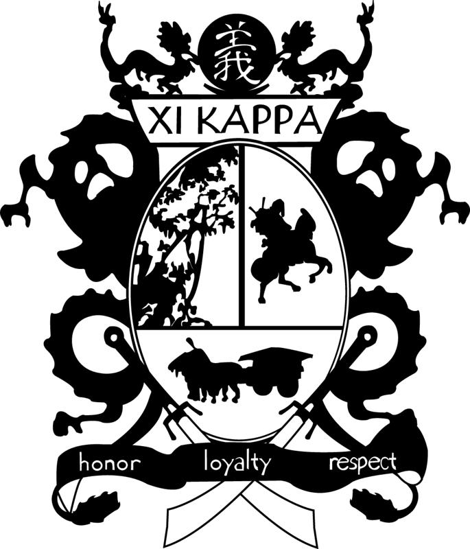 Xi Kappa Crest